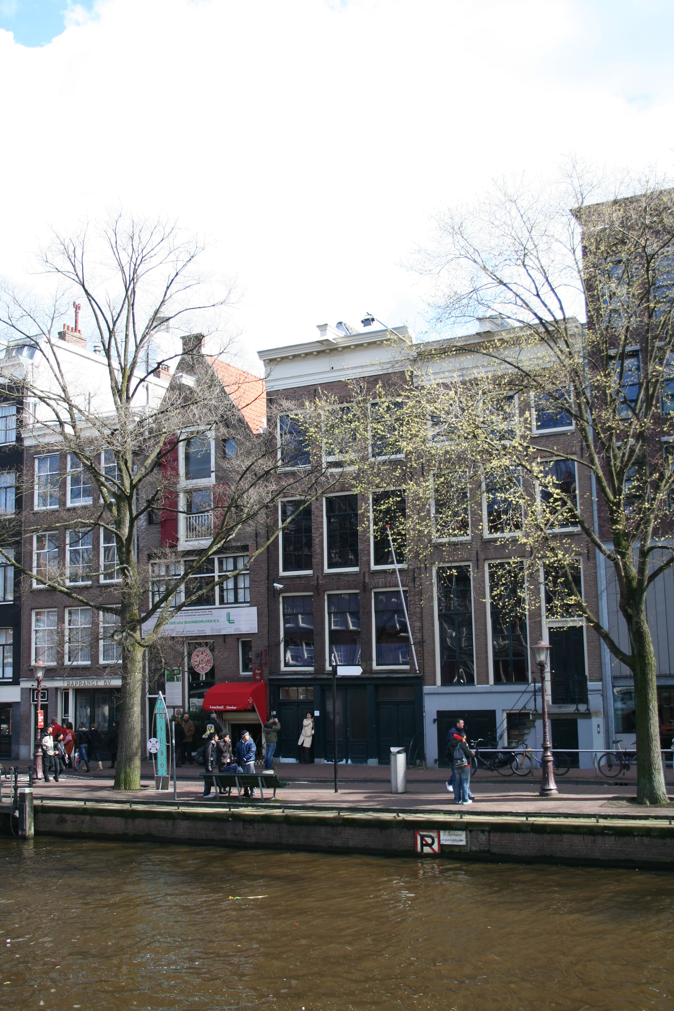 A photograph taken of the facade of the Anne Frank House in Amsterdam.